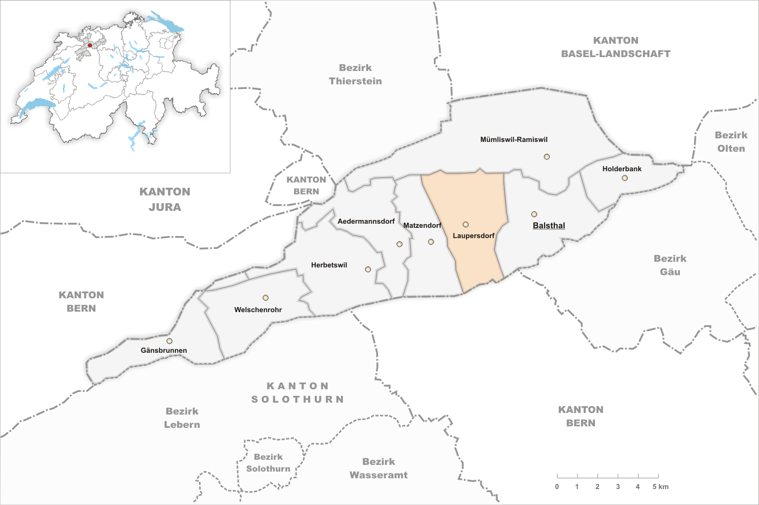 Municipality Laupersdorf